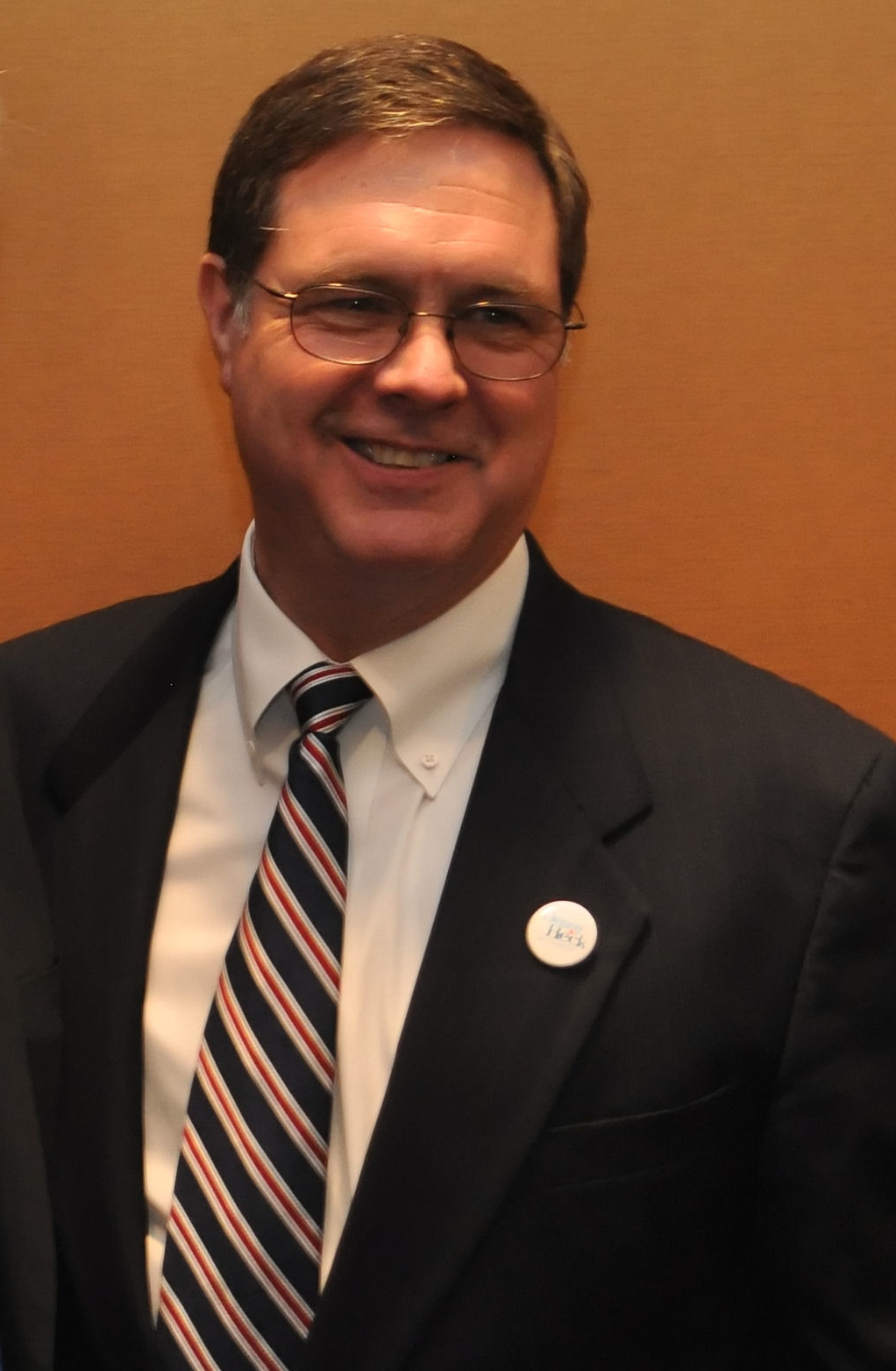 Washington state Congressman Denny Heck